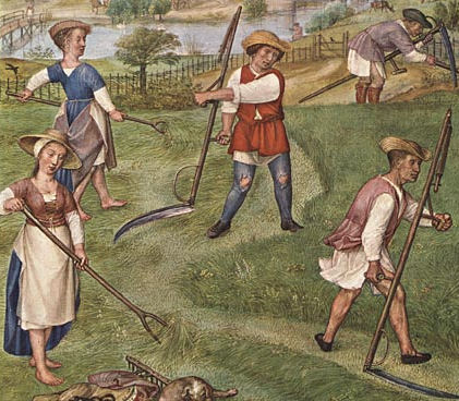 Juni, Brevarium Grimani, fol. 7v (Flemish)